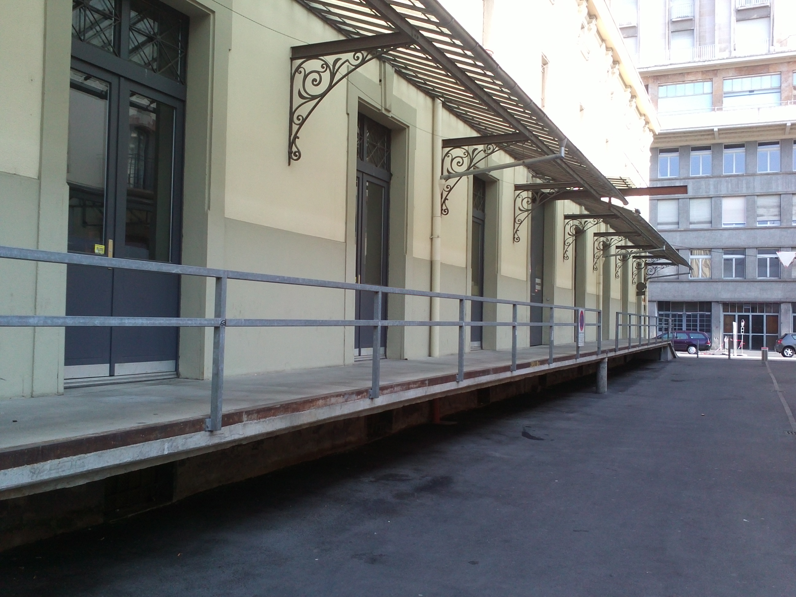 Former loading dock of the warehouses of Port Franc in the sector of Flon and old goods station of the same name.